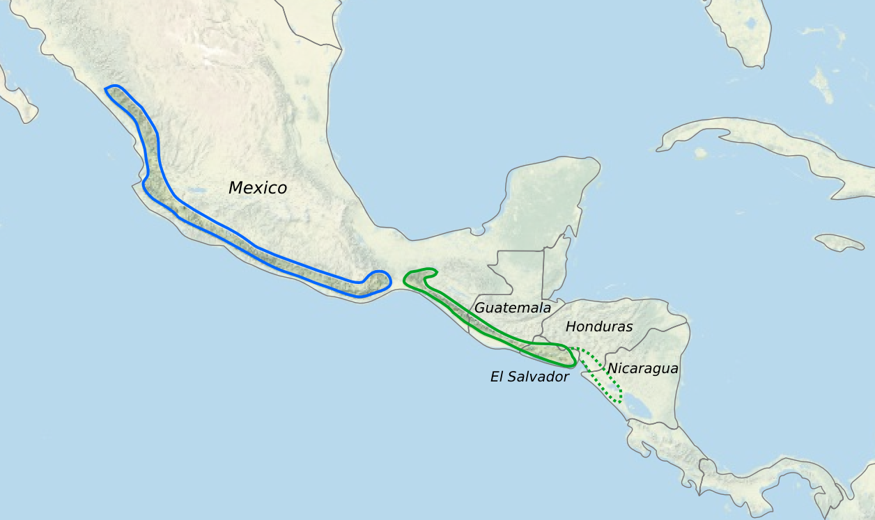 Range map of the genus Meiracyllium using data from Genera Orchidacearum, vol. 4, p. 278 / Orchids of Mexico, part 2 & 3, plate 261 / Global Biodiversity Information Facility, gbif.orgBlue: Meiracyllium gemmaGreen: Meiracyllium trinasutum. Dashed line to the south indicates area only verified by map in Genera Orchidacearum, not by other sources.